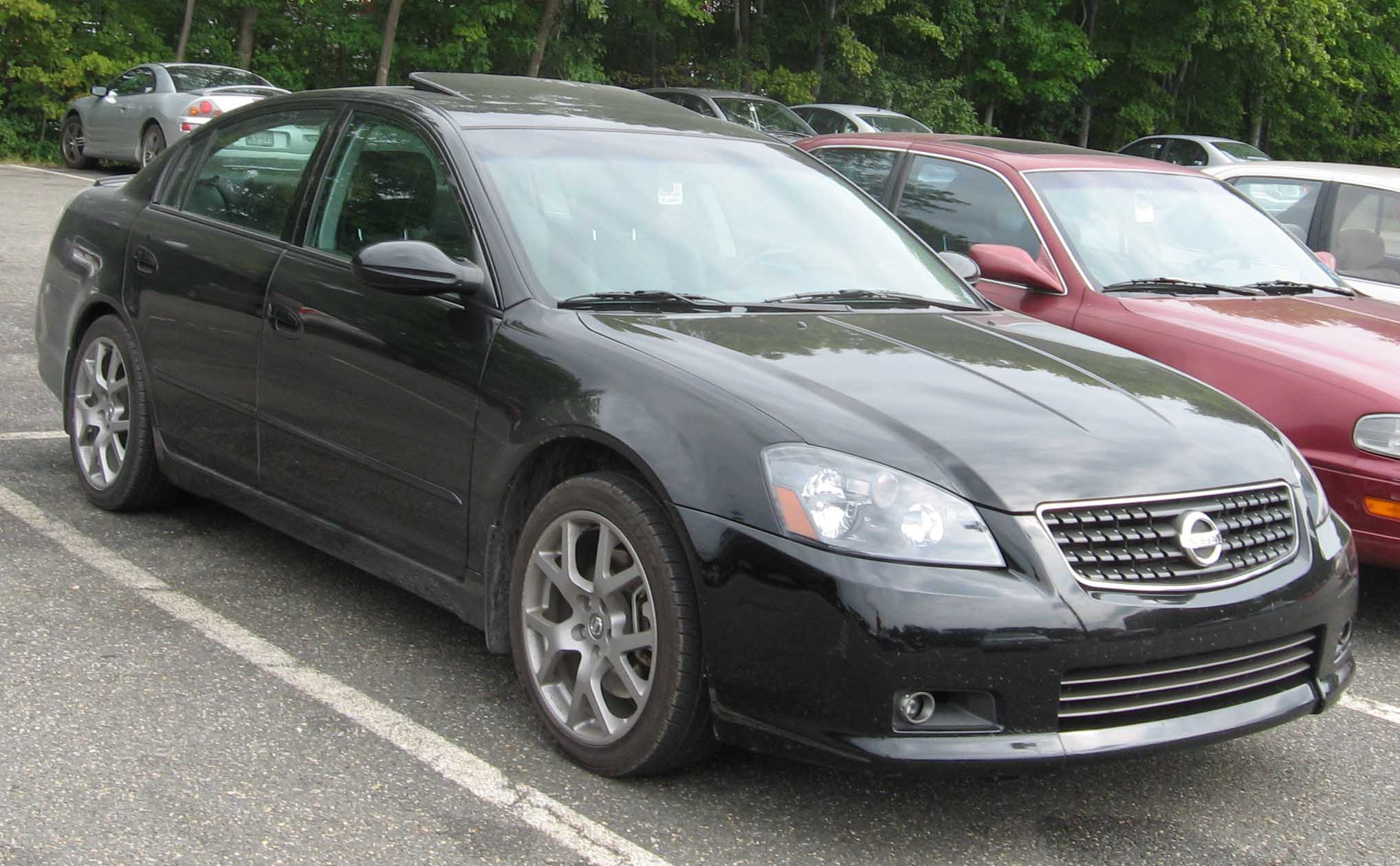 2005-2006 Nissan Altima photographed in College Park, Maryland, USA.